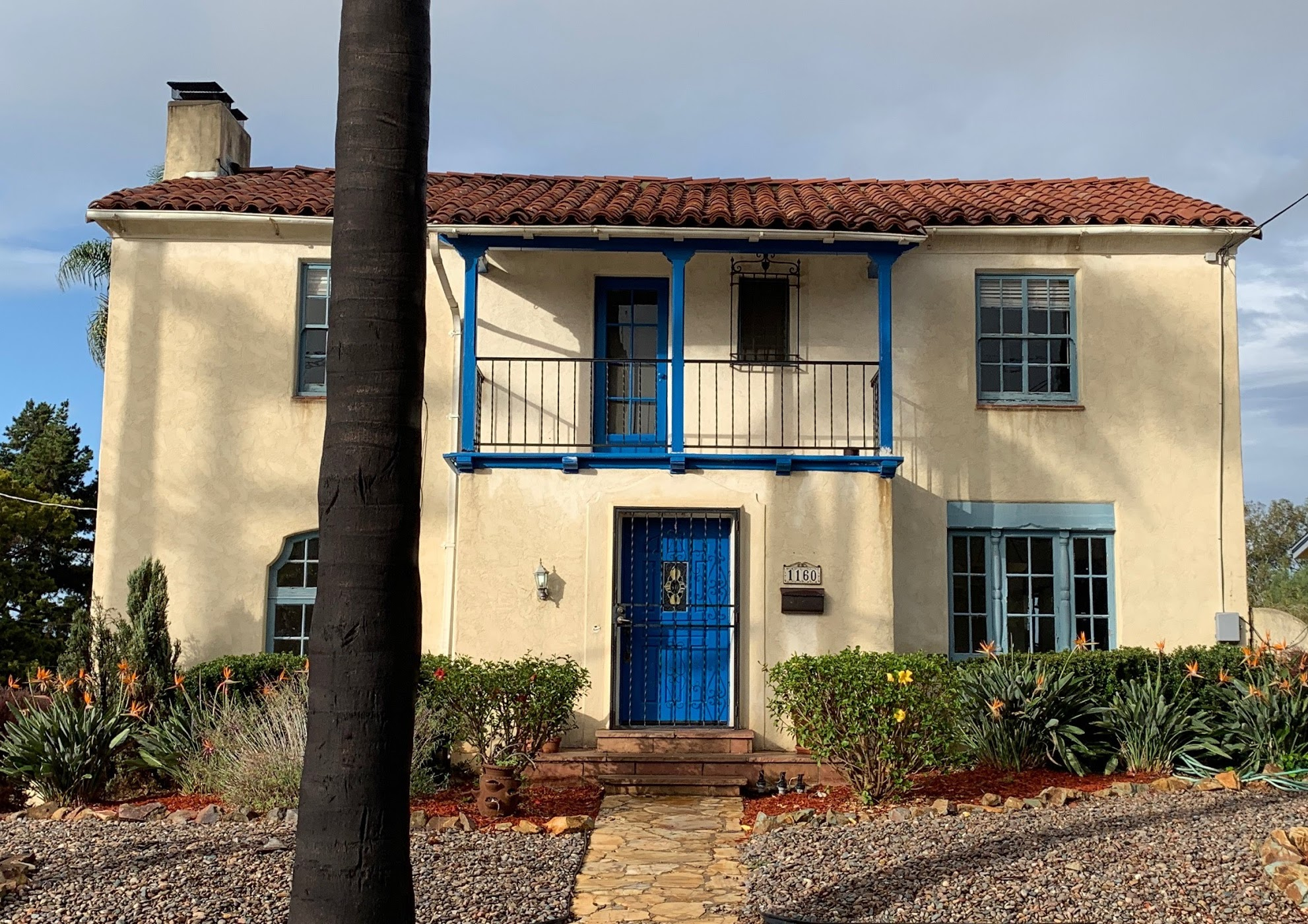 Architecture in Mission Hills, San Diego